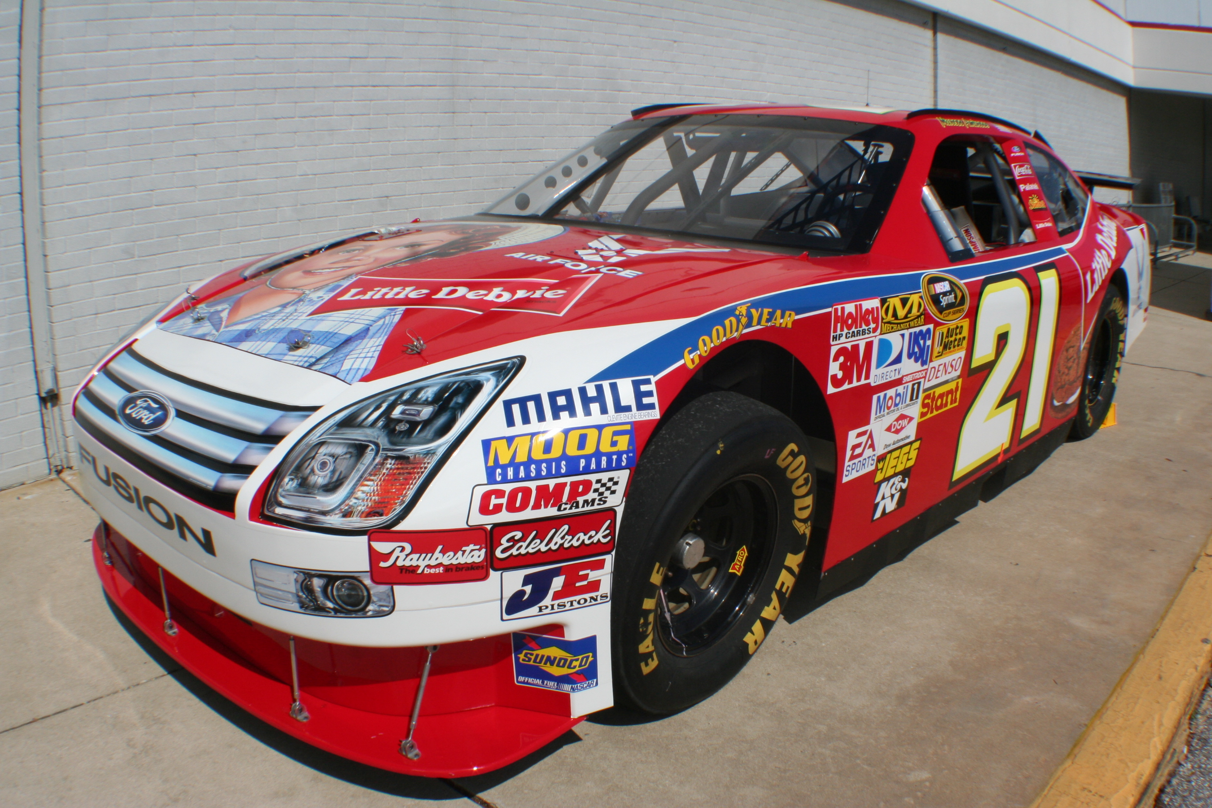 Shot by The Daredevil at Daytona during Speedweeks 2008Marcus Ambrose Little Debbie Ford Fusion